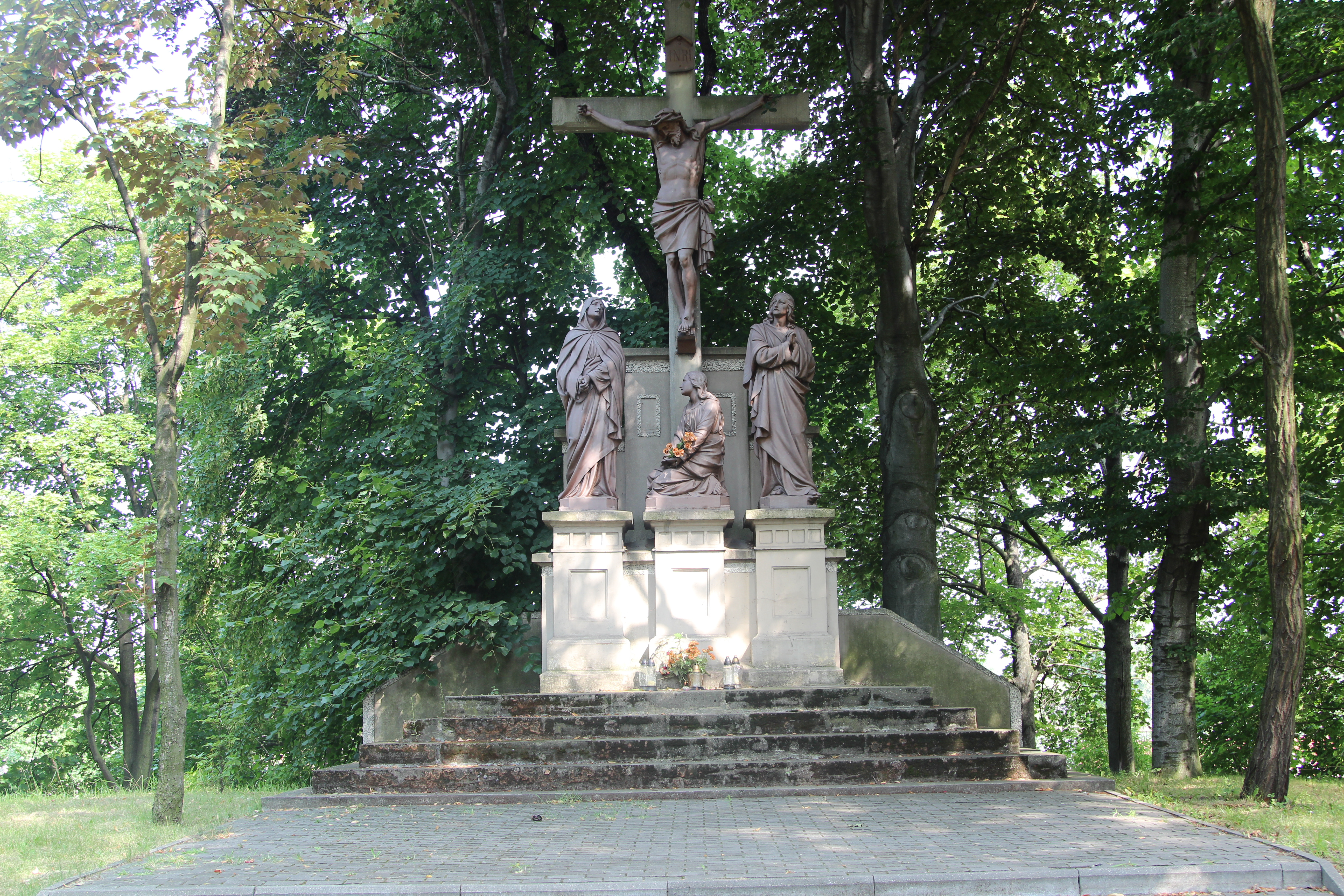 Golgota Chapel on St. Peter and St. Paul cementery in Toruń.